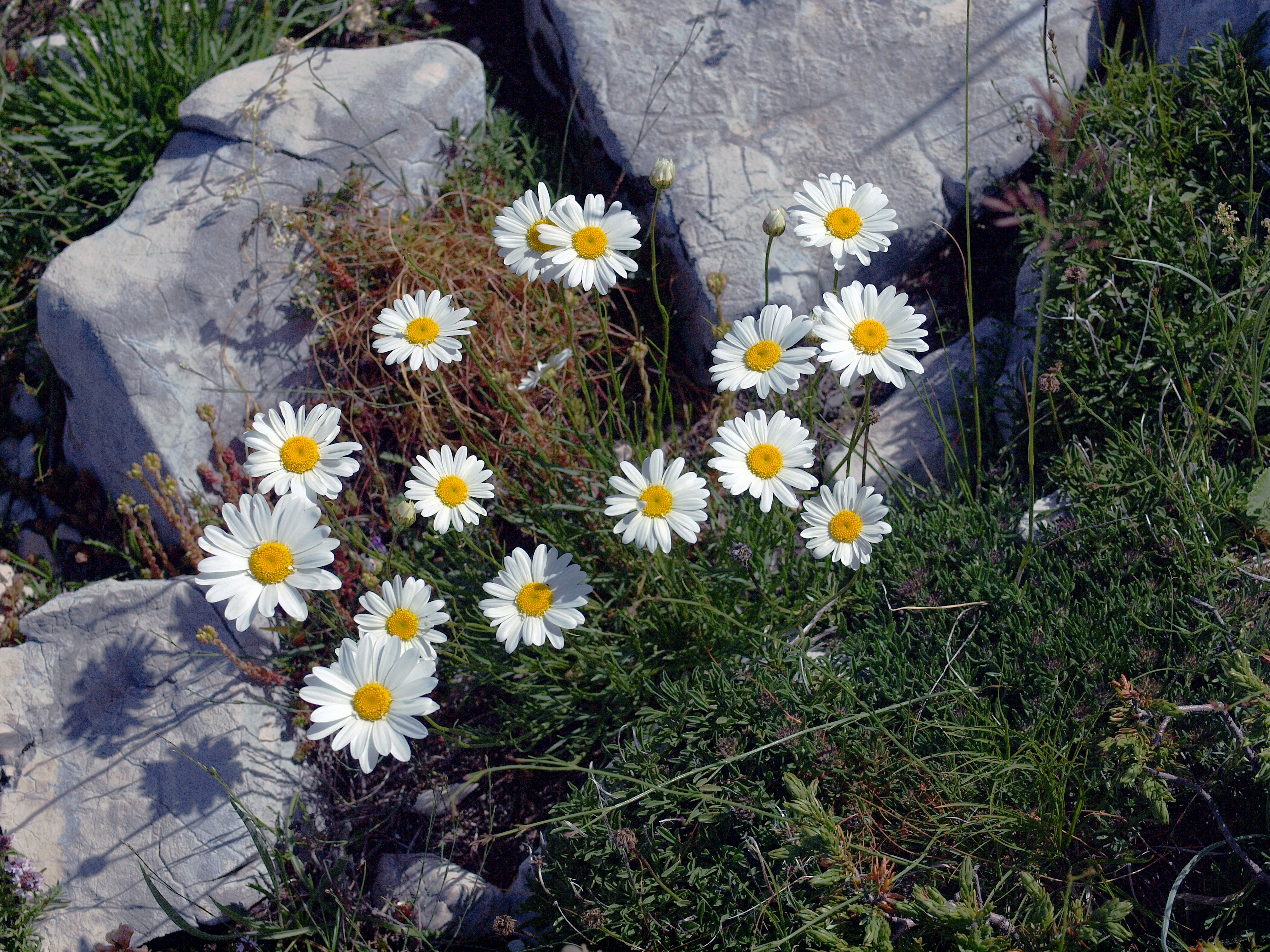 Leucanthemum chloroticum Jastrebica ridge leg P. Cikovac